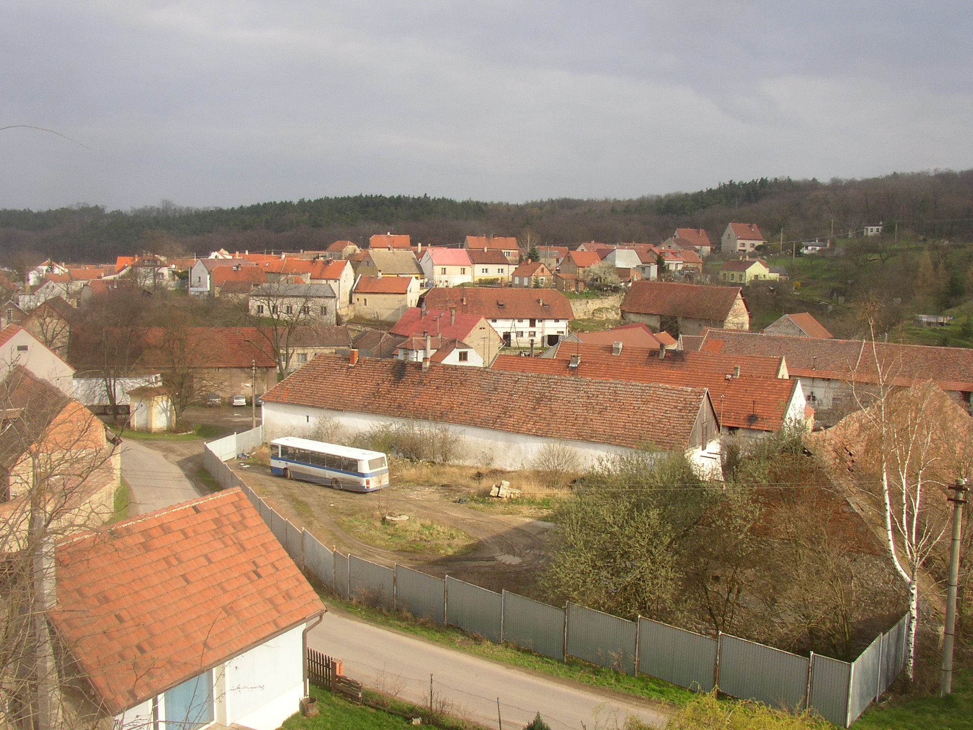 Blevice, Kladno District, Czech Republic. A general view from the northwest.